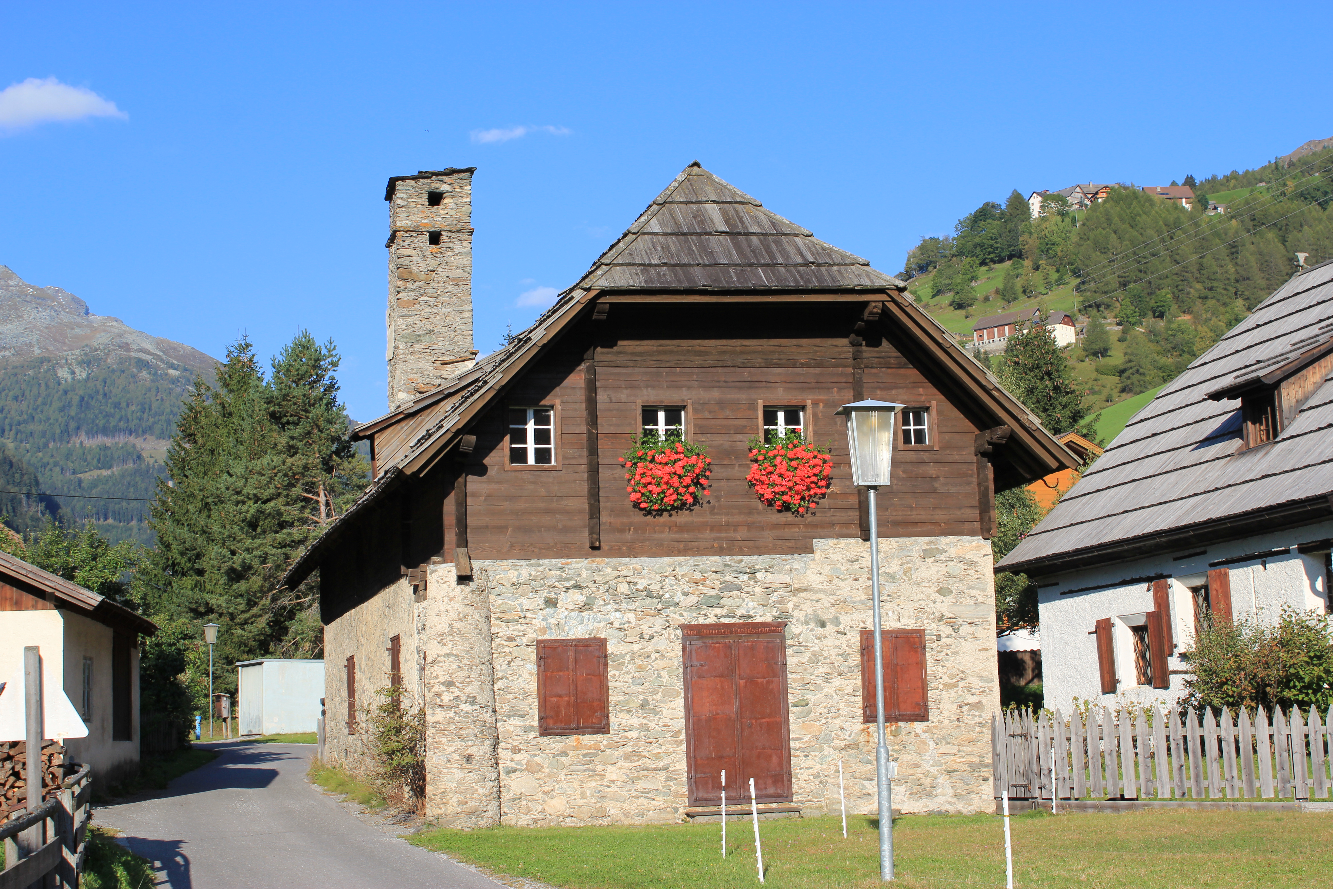 Historical mining building in Oberndorf in the community of Rennweg am Katschberg